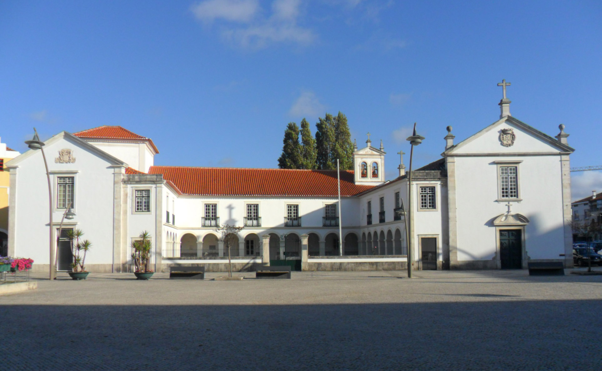 This file was uploaded for Wiki Loves Monuments in Portugal with the unique identifier 71150.